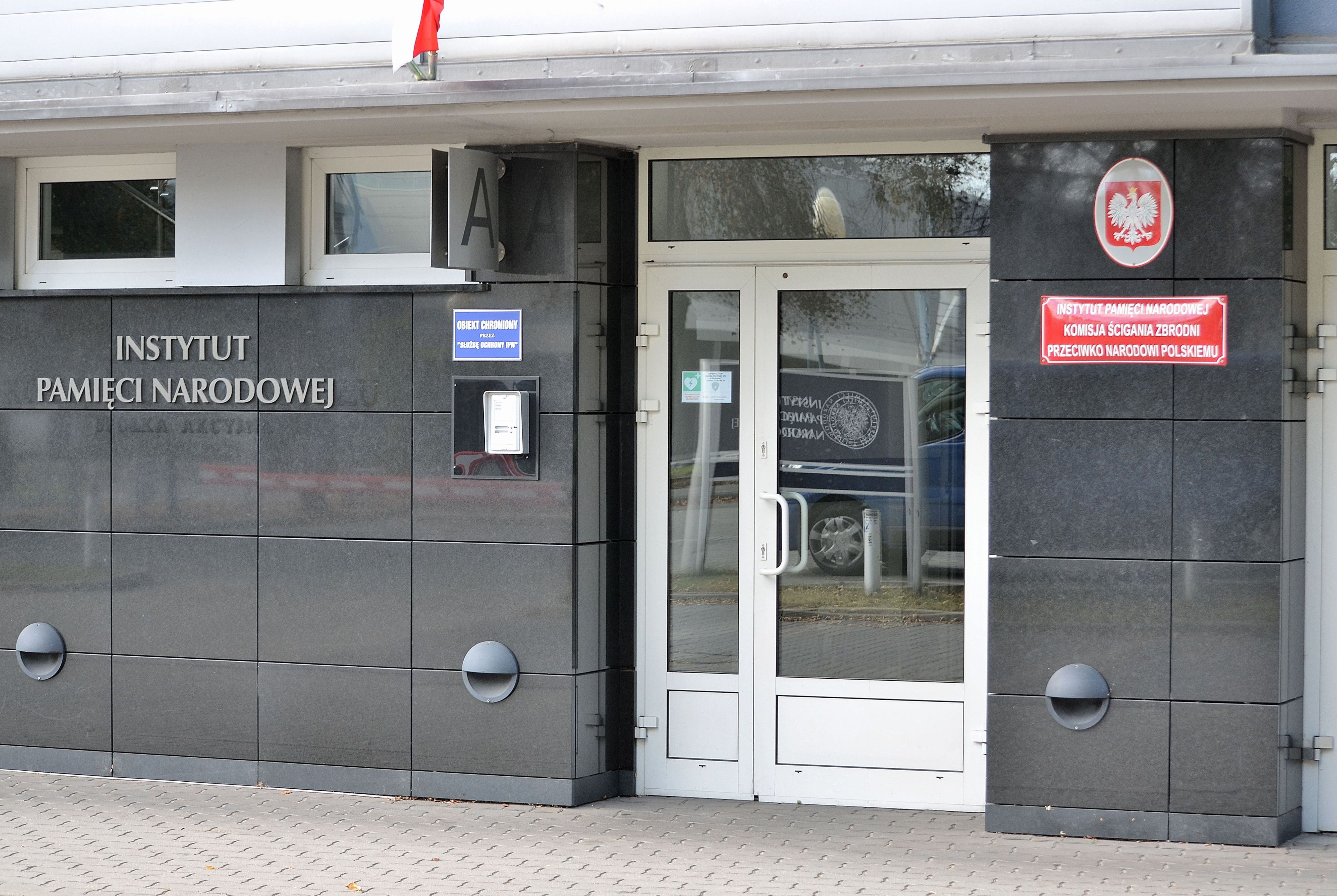 Entrance to the headquarters of the Institute of National Rememebrance at 7 Wołoska Street in Warsaw